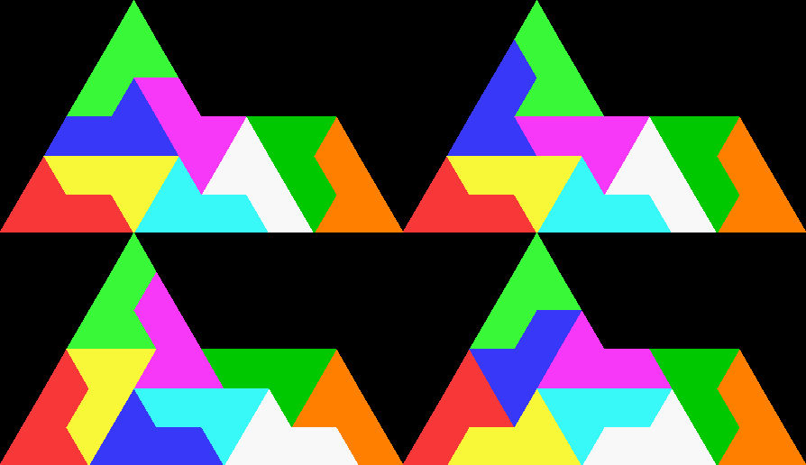 Different rep-tilings of the sphinx hexiamond, a geometrical shape created by joining six equilateral triangles.